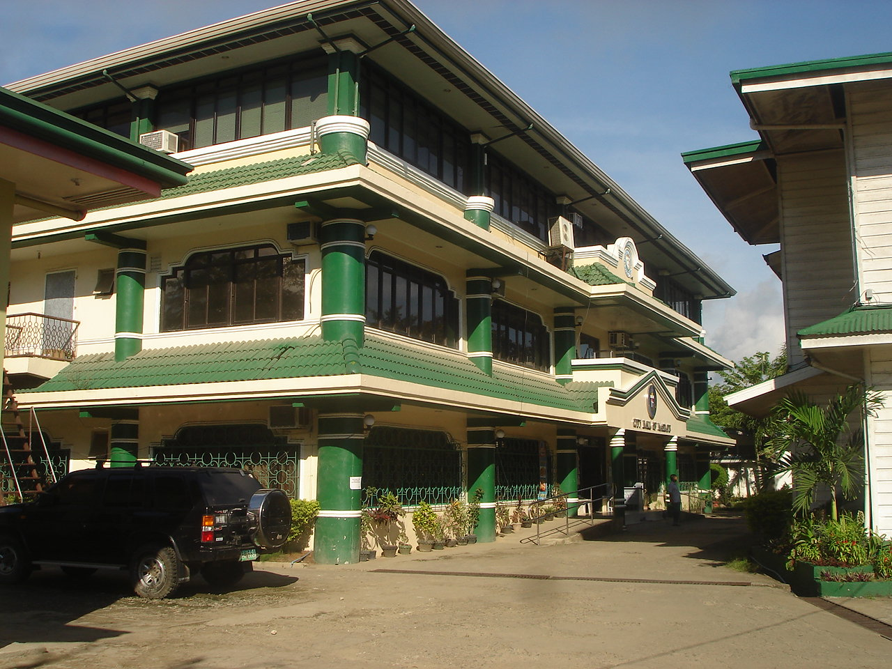 City Hall of Masbate